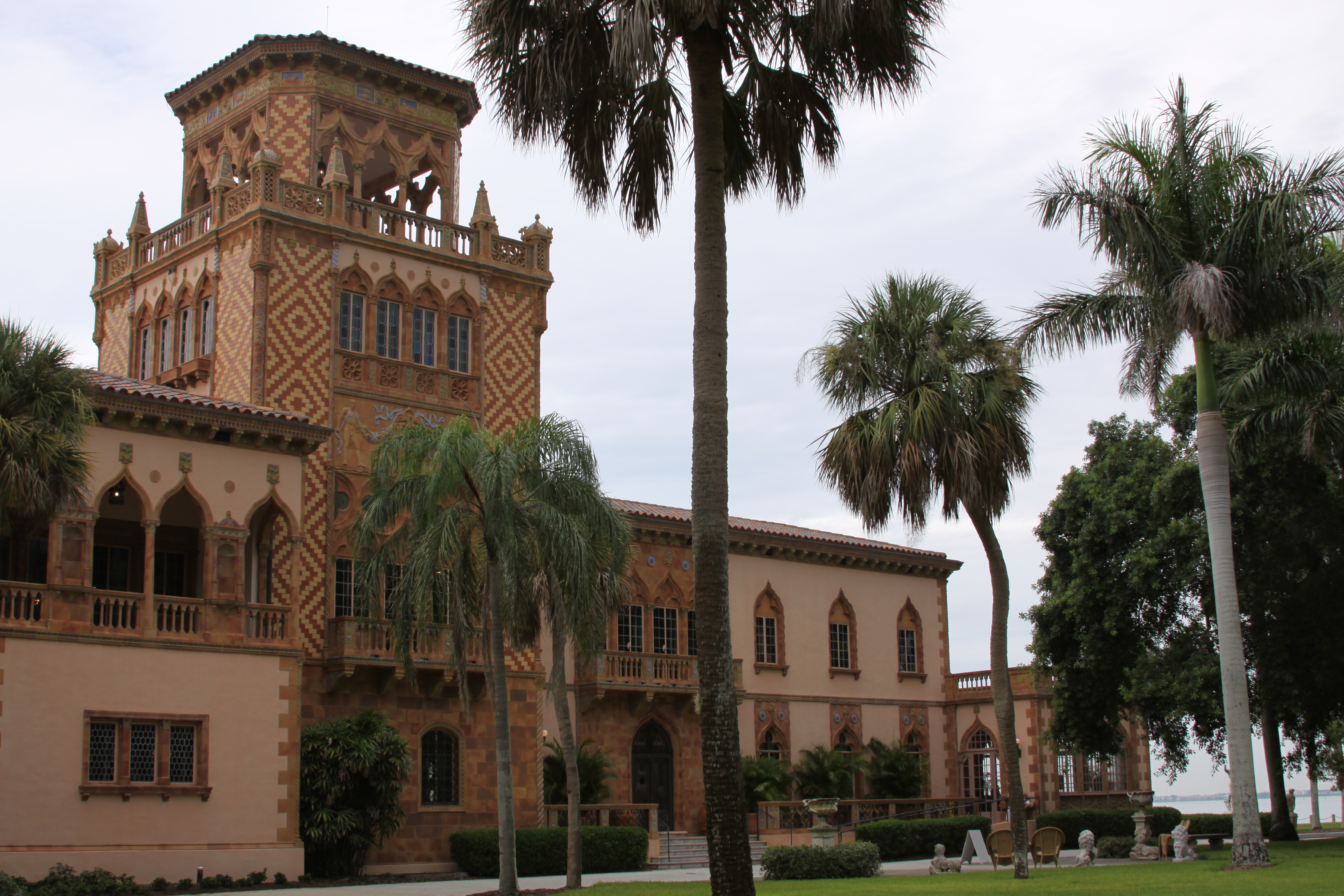 Cà d'Zan east façade. Sarasota, Florida.